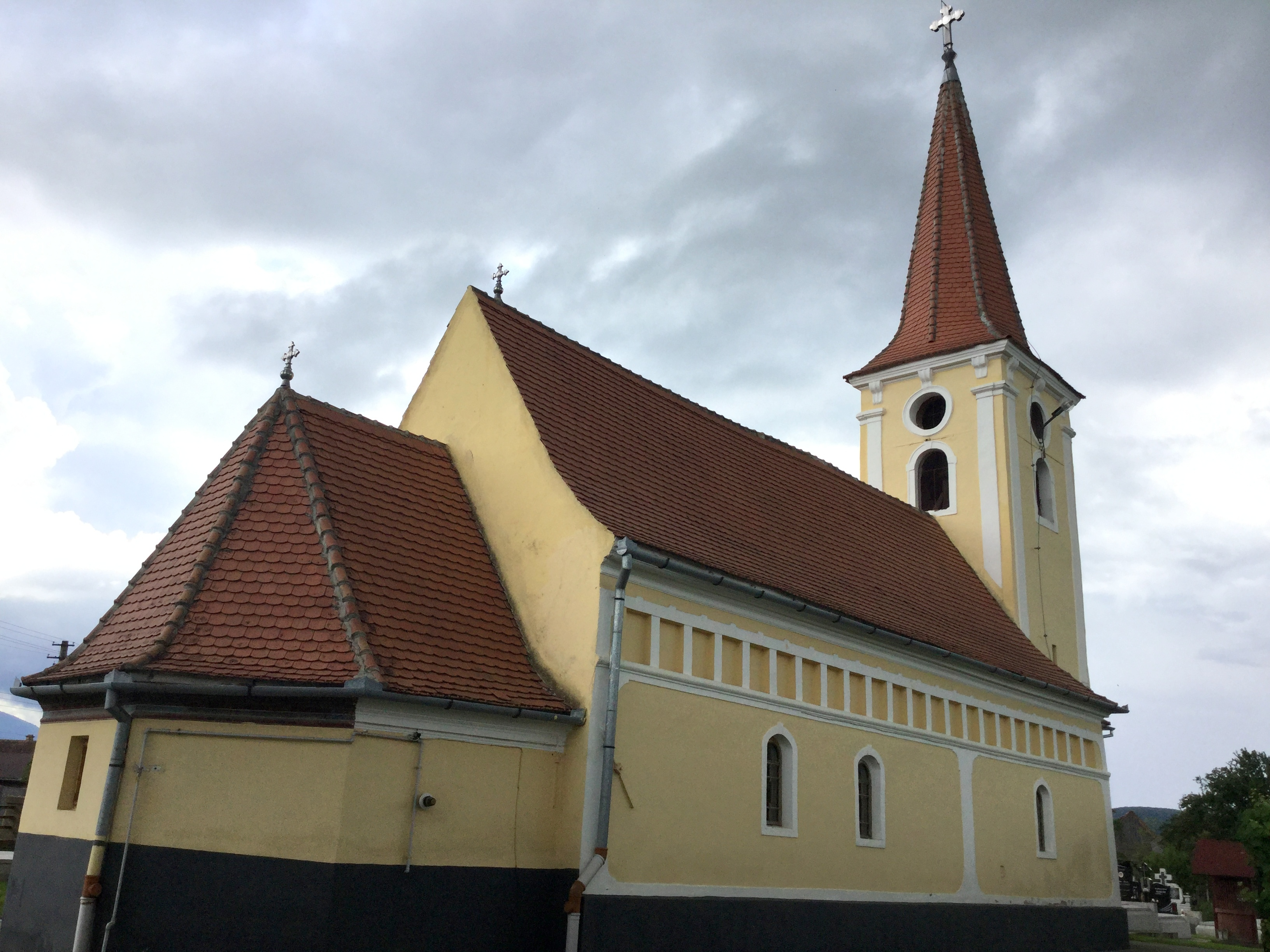 Church of the Annunciation in Cristian, Sibiu County, Romania